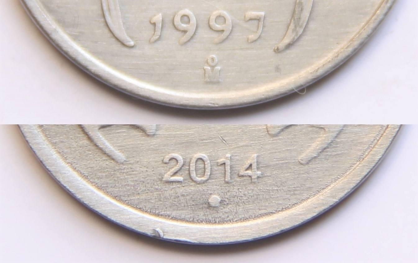 Noida Mint marks on Indian rupee coin.